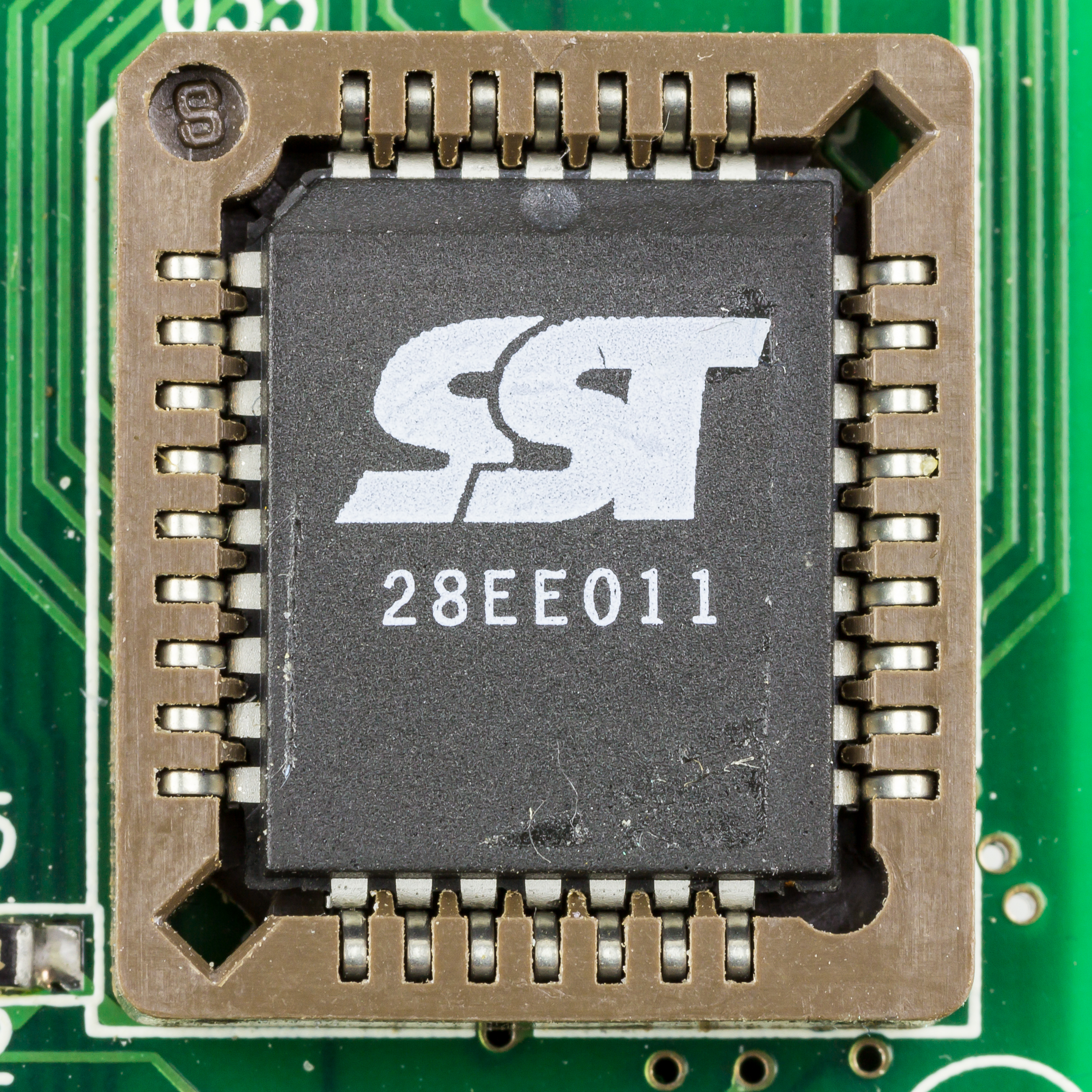 Laptop Acrobat Model NBD 486C, Type DXh2 - Silicon Storage Tech SST 28EE011 (in a PLCC socket) on motherboard